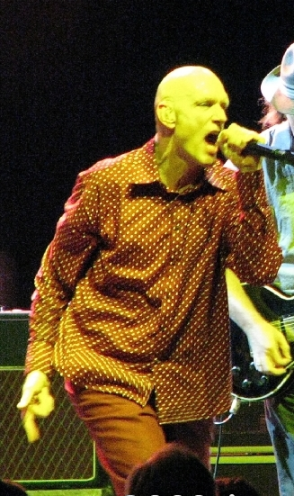 The australian singer Peter Garrett (Midnight Oil) during a concert in Canberra - 2009